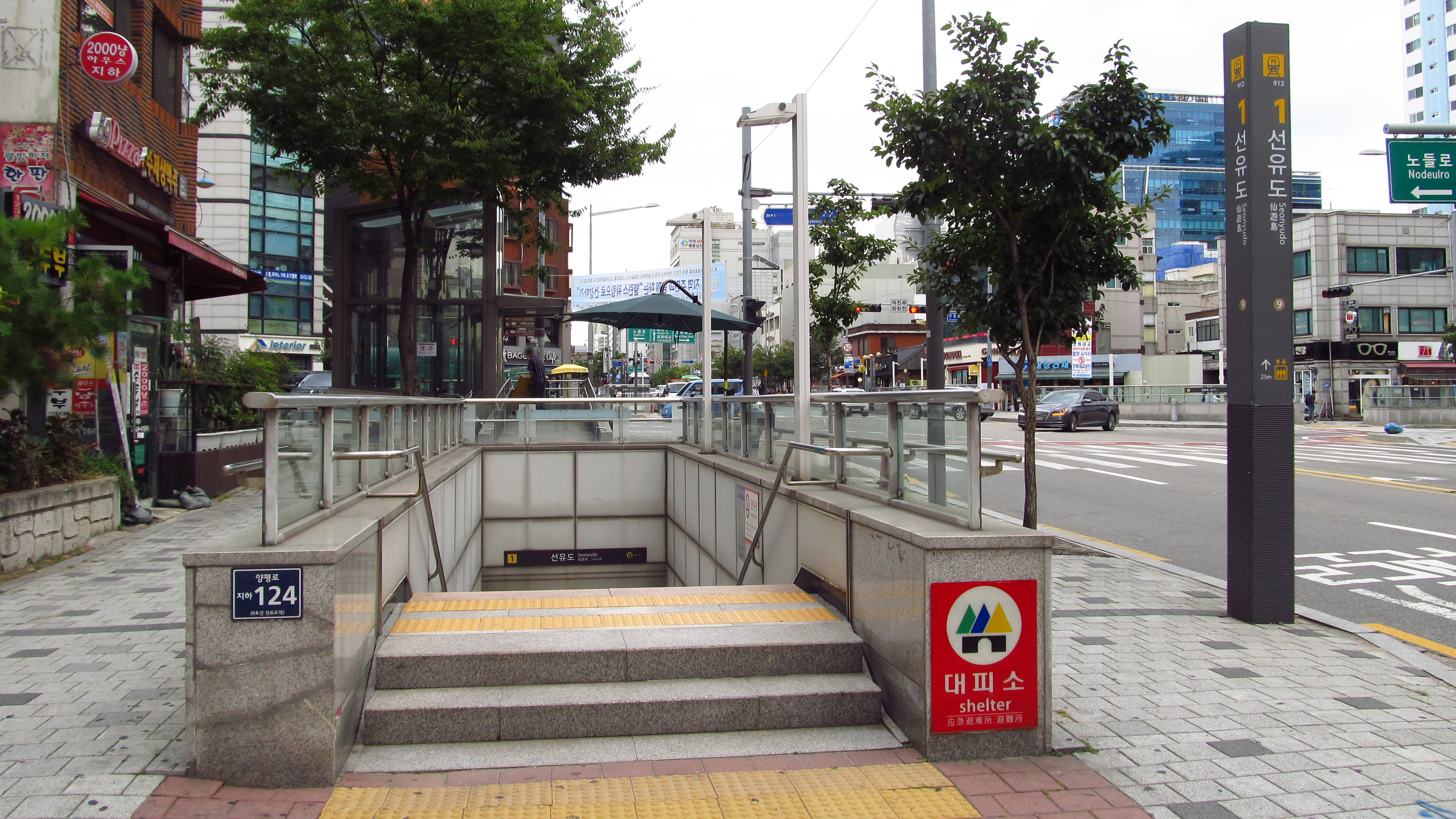 The entrance no.1 to Seonyudo Station on Seoul Subway Line 9 in Yeongdeungpo-gu, Seoul, Republic of Korea(South Korea)